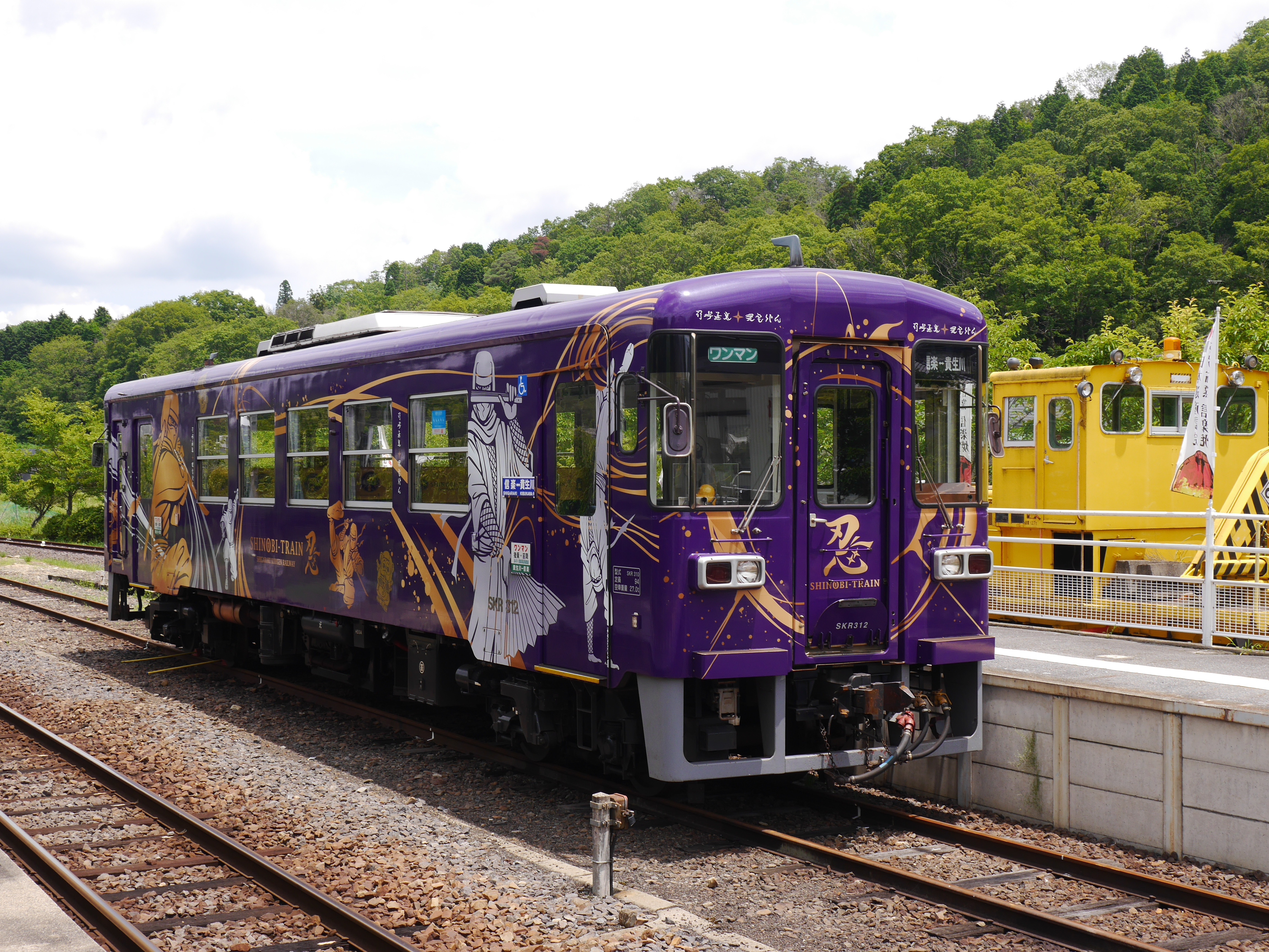 Shigaraki Kogen Railway SKR 312 diesel multiple unit at Shigaraki station covered with Ninja Wrapping